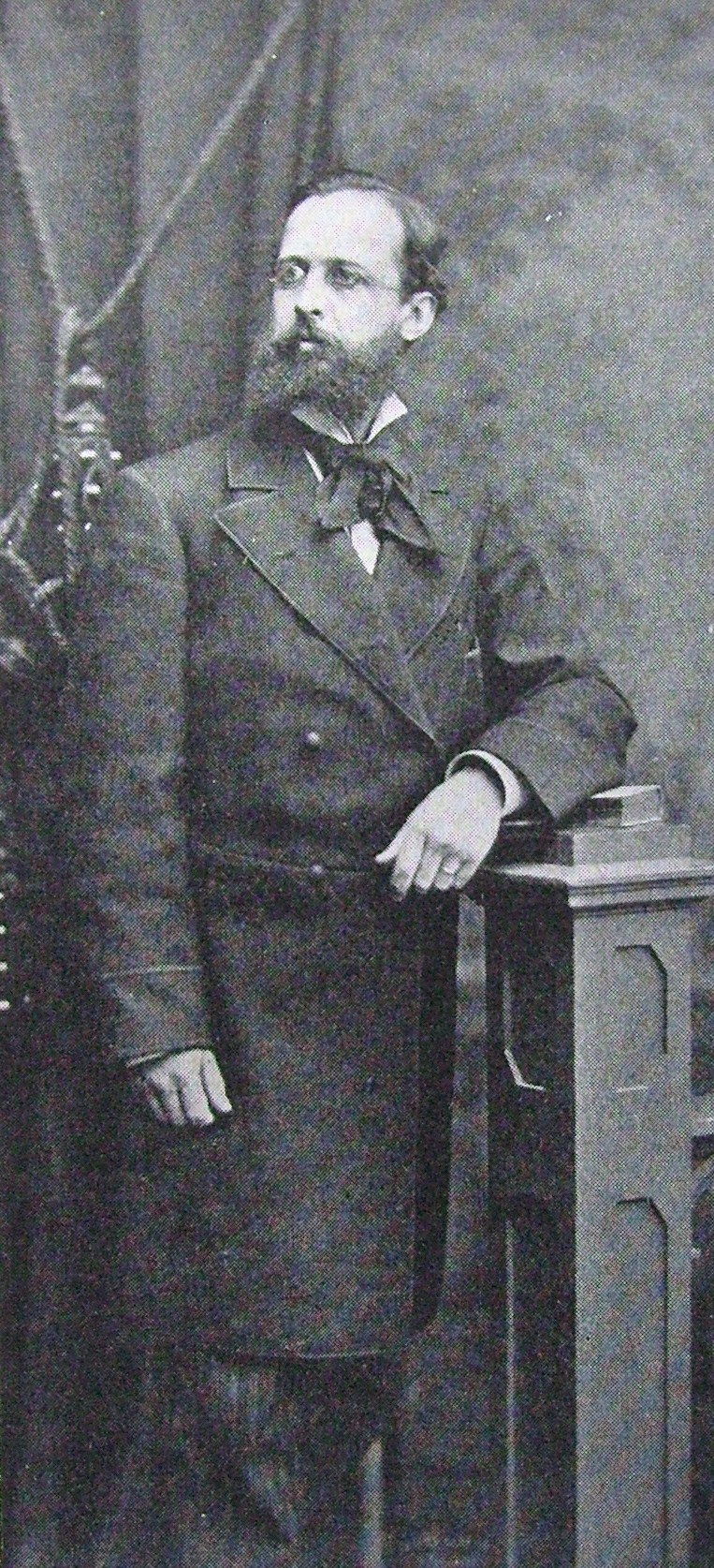 Picture of Anton Nyström, Swedish politician